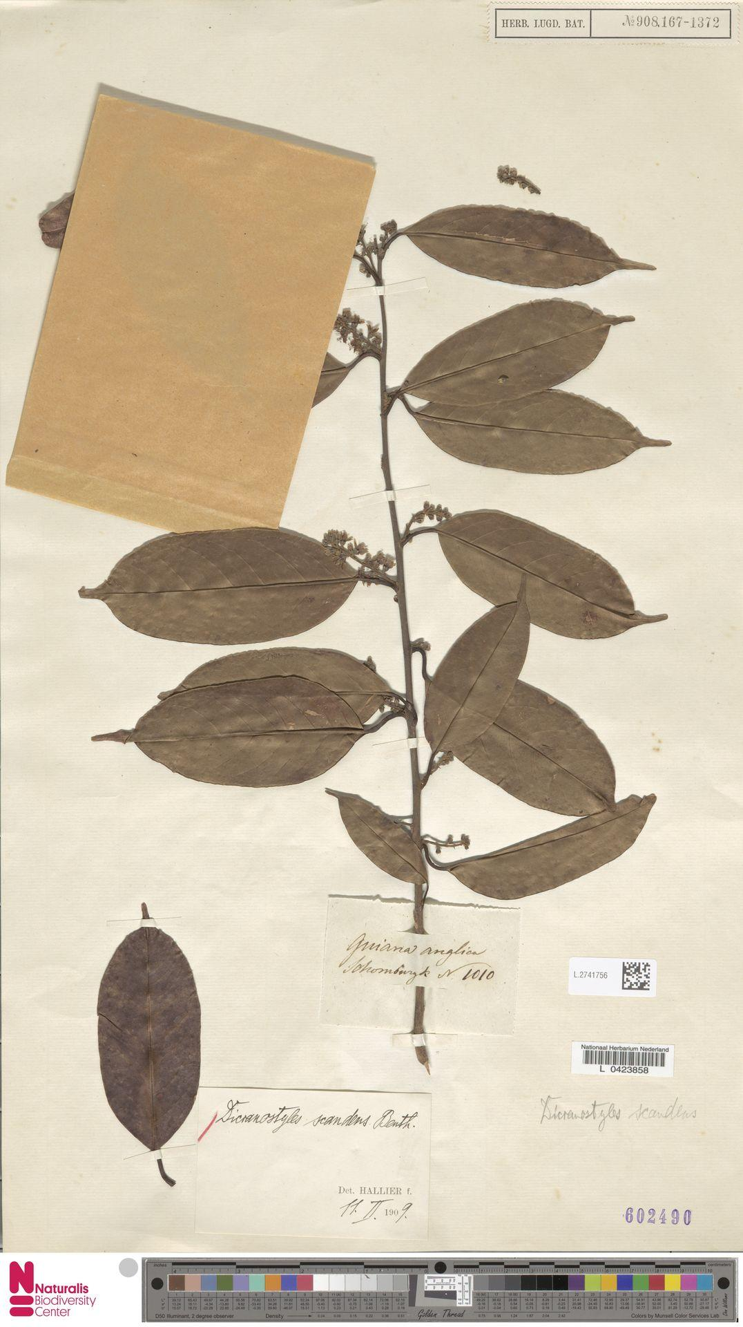 Dicranostyles scandens Benth. (type of) - Dicranostyles scandens Benth. (species)